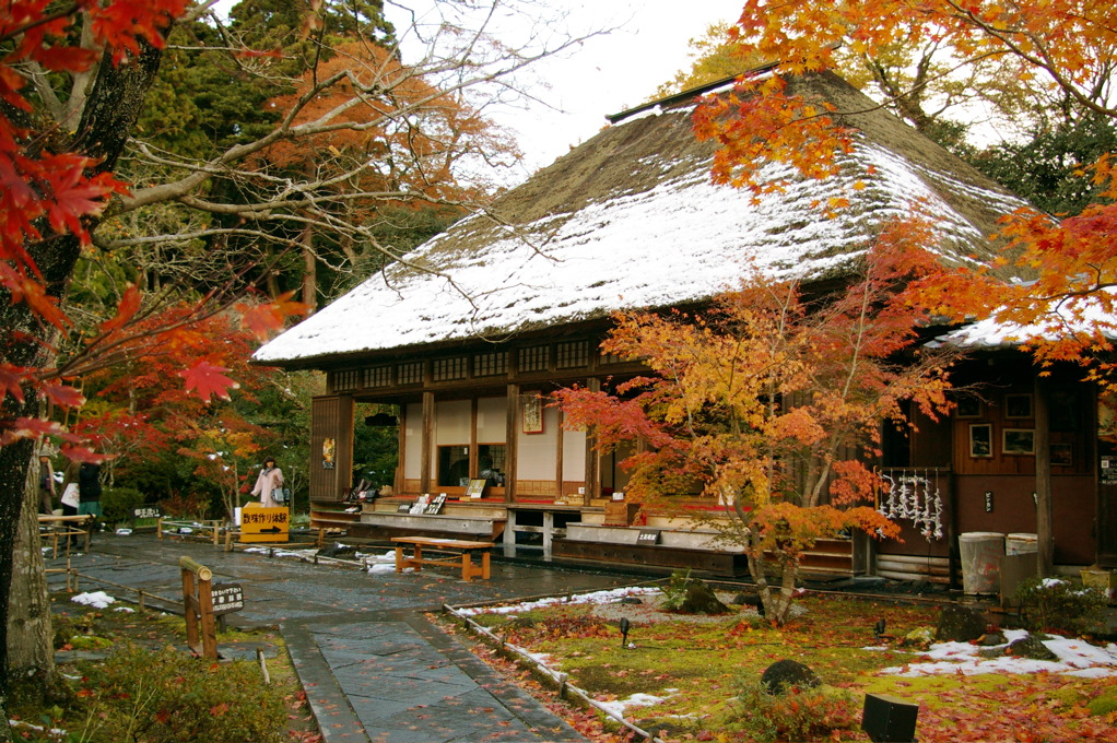 Entsū-in temple(Snow and Koyo) in Matsushima, Miyagi